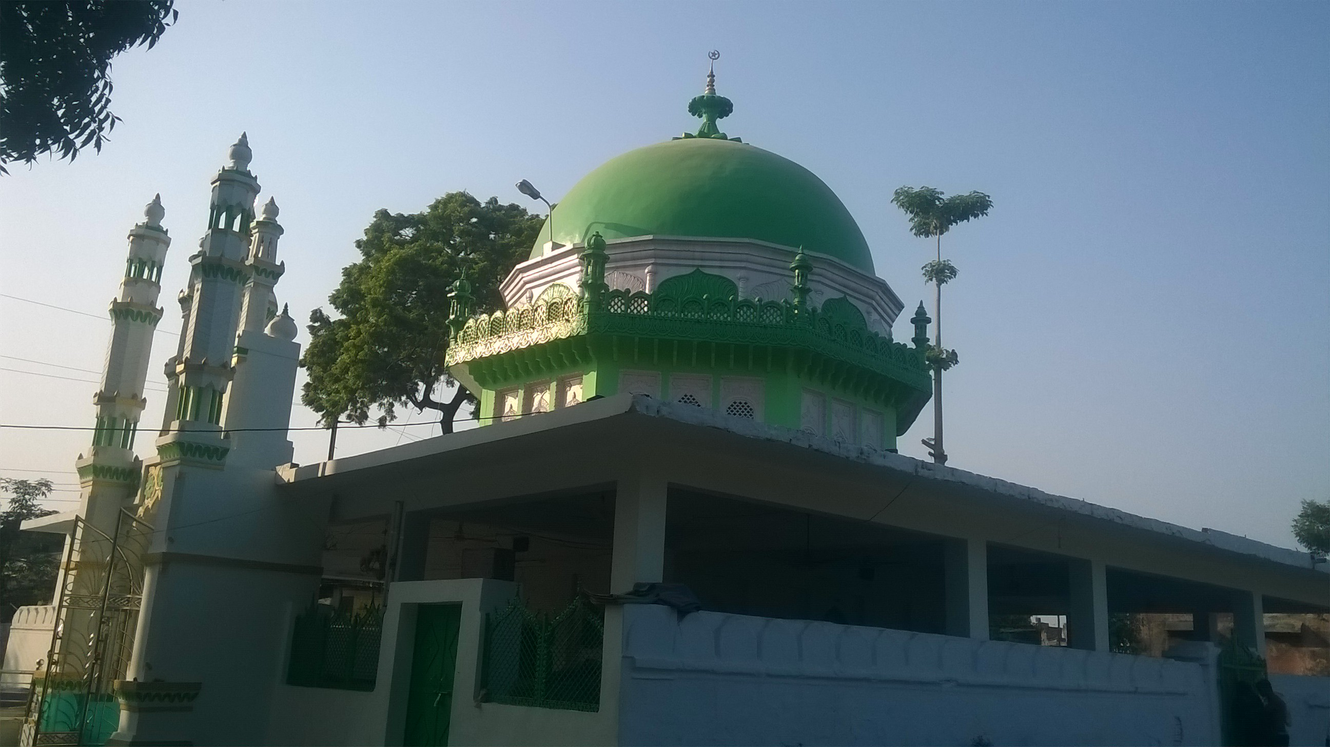 The Tomb of Syed Afzaluddin Abu Jafar AmeerMah in Bahraich